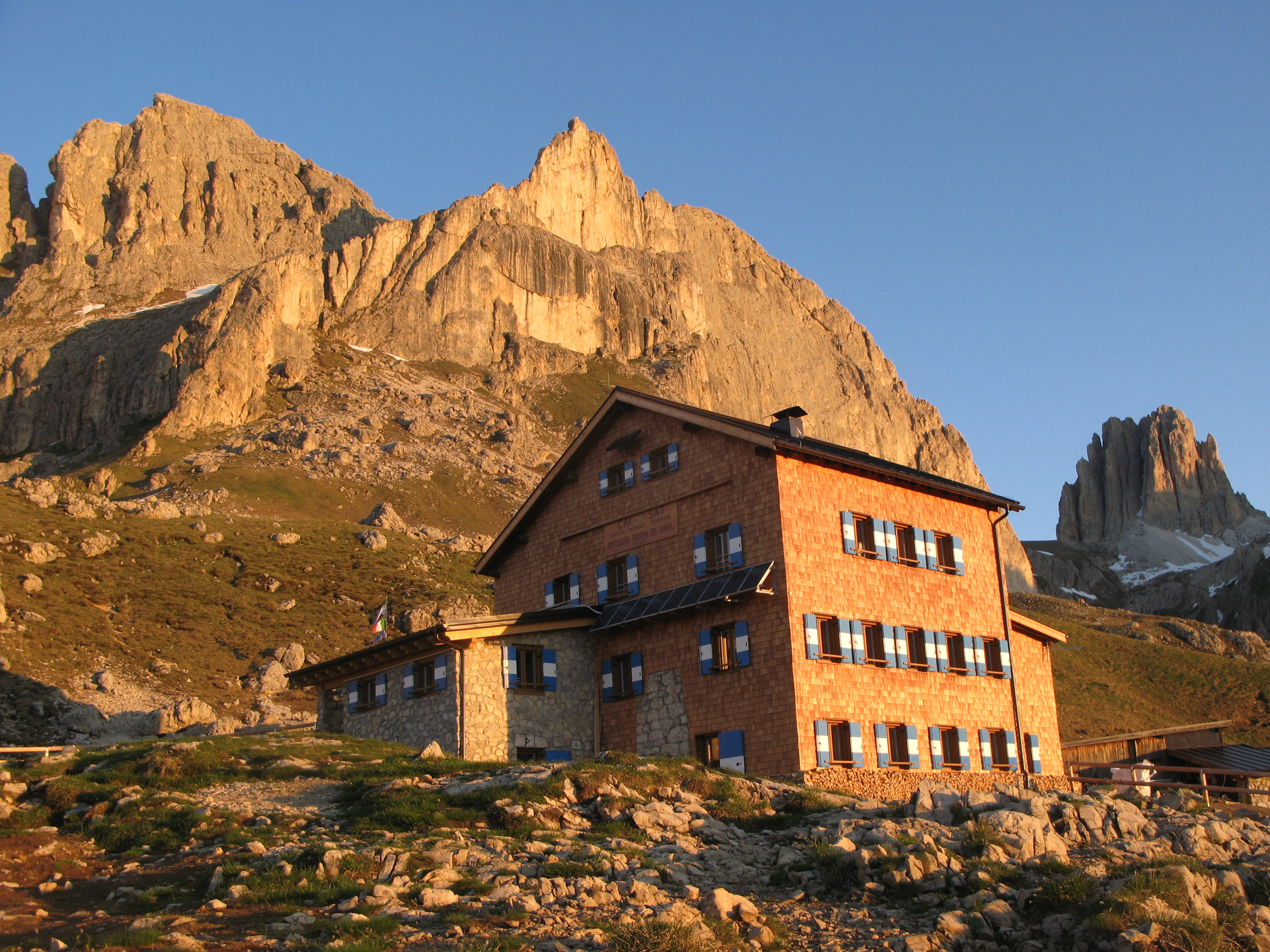 Roda di Vael Refuge